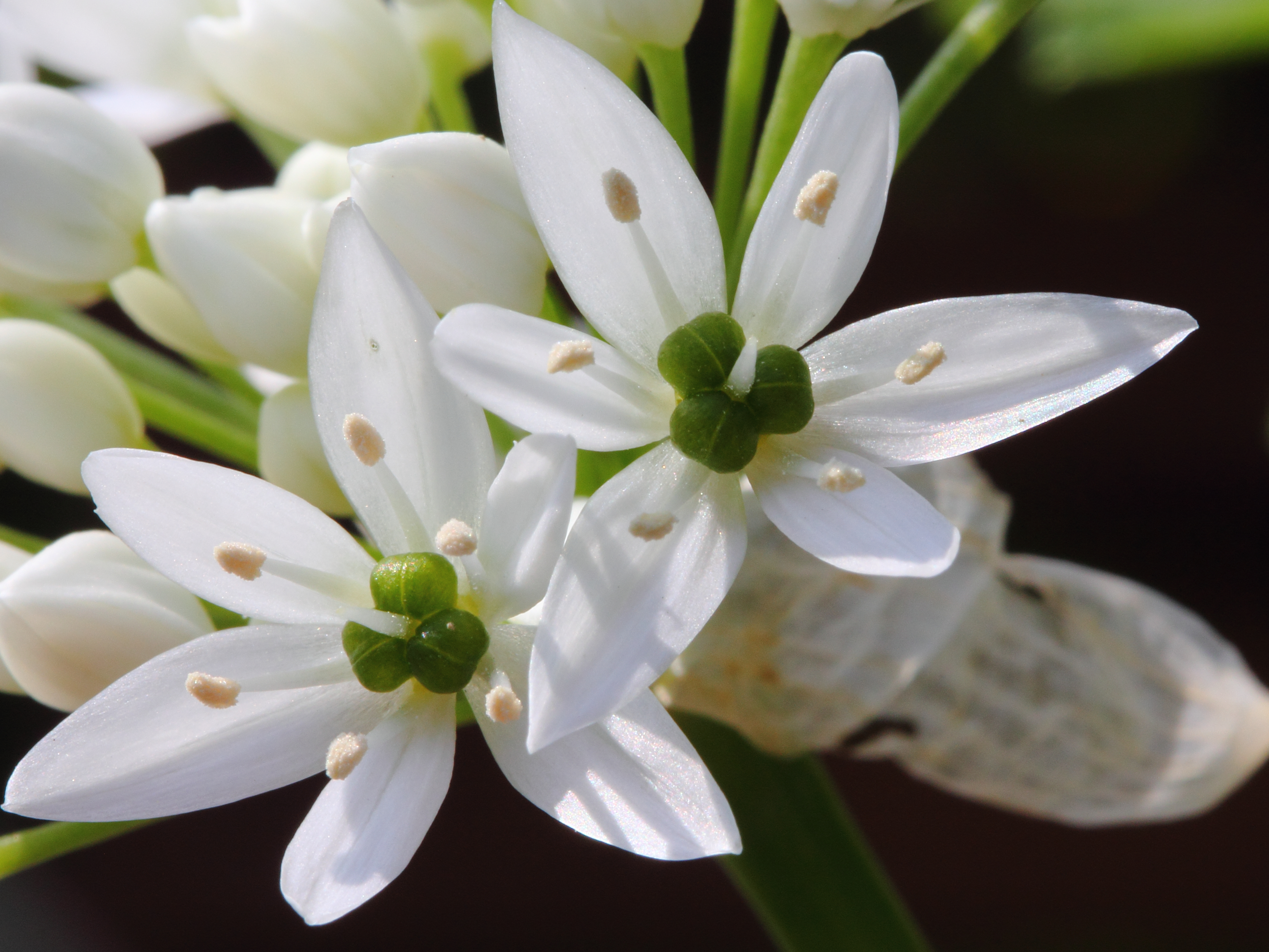 Bear's garlic (Allium ursinum) close-up of blossoms. Picture taken in private garden.